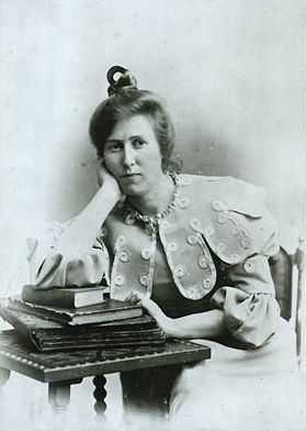 Gerda Madvig, née Heyman (1868-1940), Danish sculptress and painter